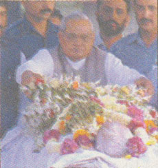 Atal Bihari Vajpayee giving tribute to Dattopant Thengadi.